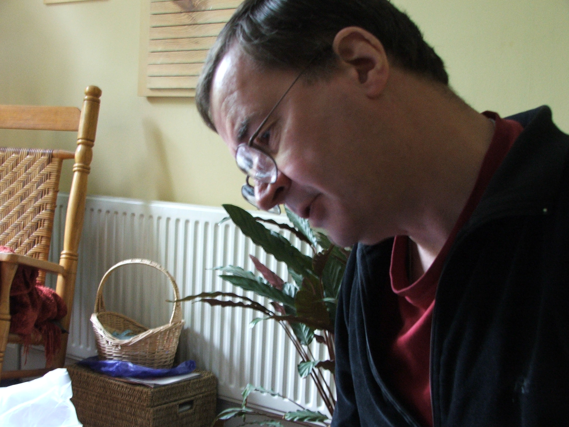 Hobbs' official picture.